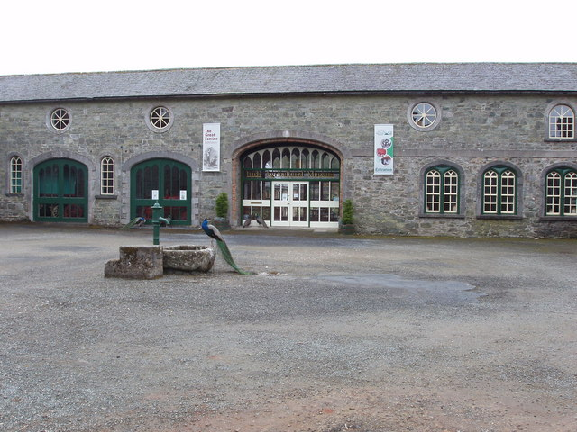 Agricultural museum, Johnstown Castle This is all I managed to see of the museum as it had an unscheduled and unexplained closure the morning I was there.